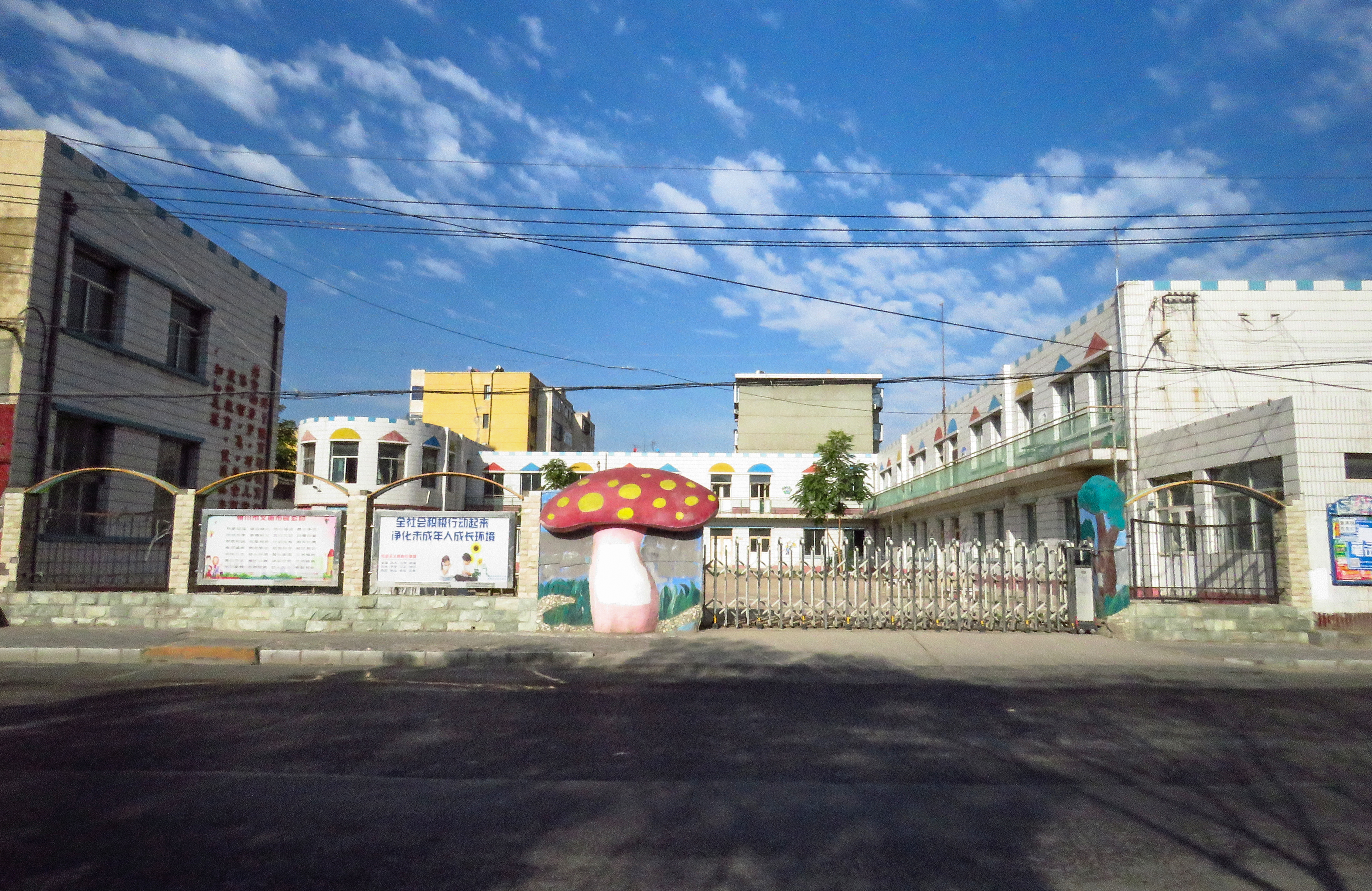 Just found a historic photograph from Ningxia Encyclopedia, published in 1998. It turned out to be the former No.1 Kindergarten.